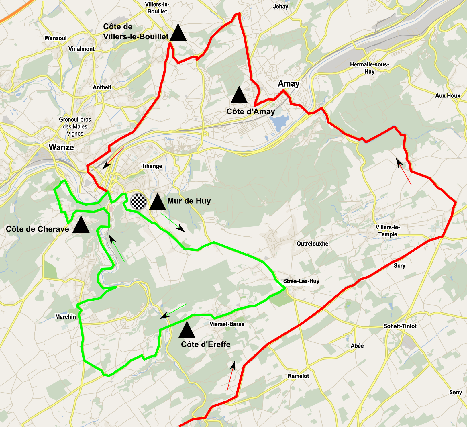 Circuit map of the Flèche wallonne 2017.